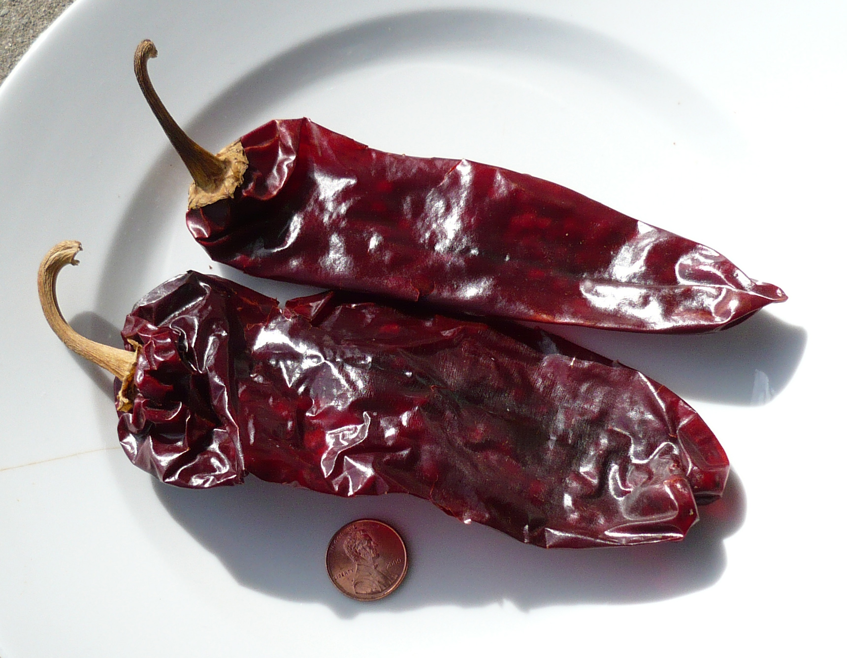 Dried red New Mexico chile peppers. Photo taken in Kent, Ohio with a Panasonic Lumix digital camera (model DMC-LS75). Dried red New Mexico chili peppers purchased from a northeast Ohio-area Mexican grocery store.